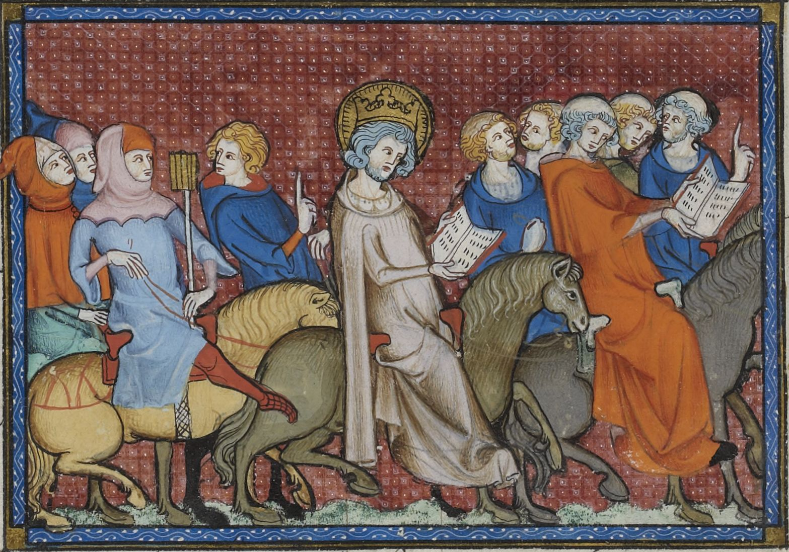 Louis IX of France